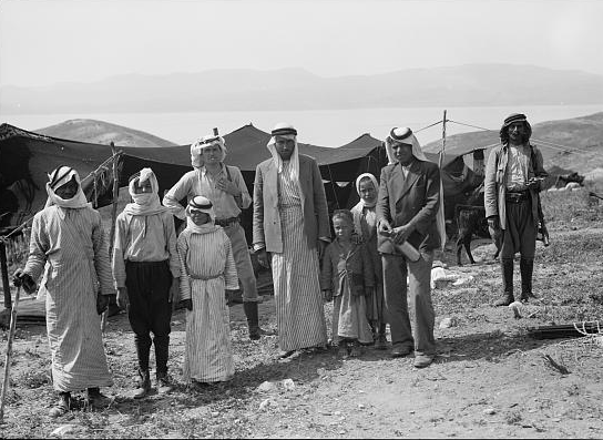 Al-Nuqayb